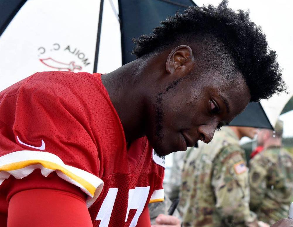 Kansas City Chiefs wide receiver, Chris Conley, signs a football after military appreciation day at the Chiefs training camp in St. Joseph, Mo., Aug. 14, 2018. The Chiefs invited military members from across Kansas and Missouri to watch their final training camp practice as well as meet and greet the players.